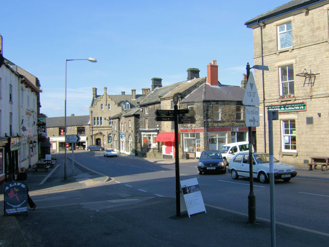 Penistone - Market Street The northern end of Market Street looking down to St Mary Street with Shrewsbury Road leading off to the right.